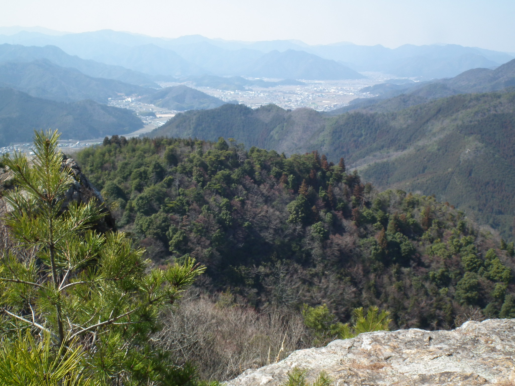 Oni-no-kakehashi